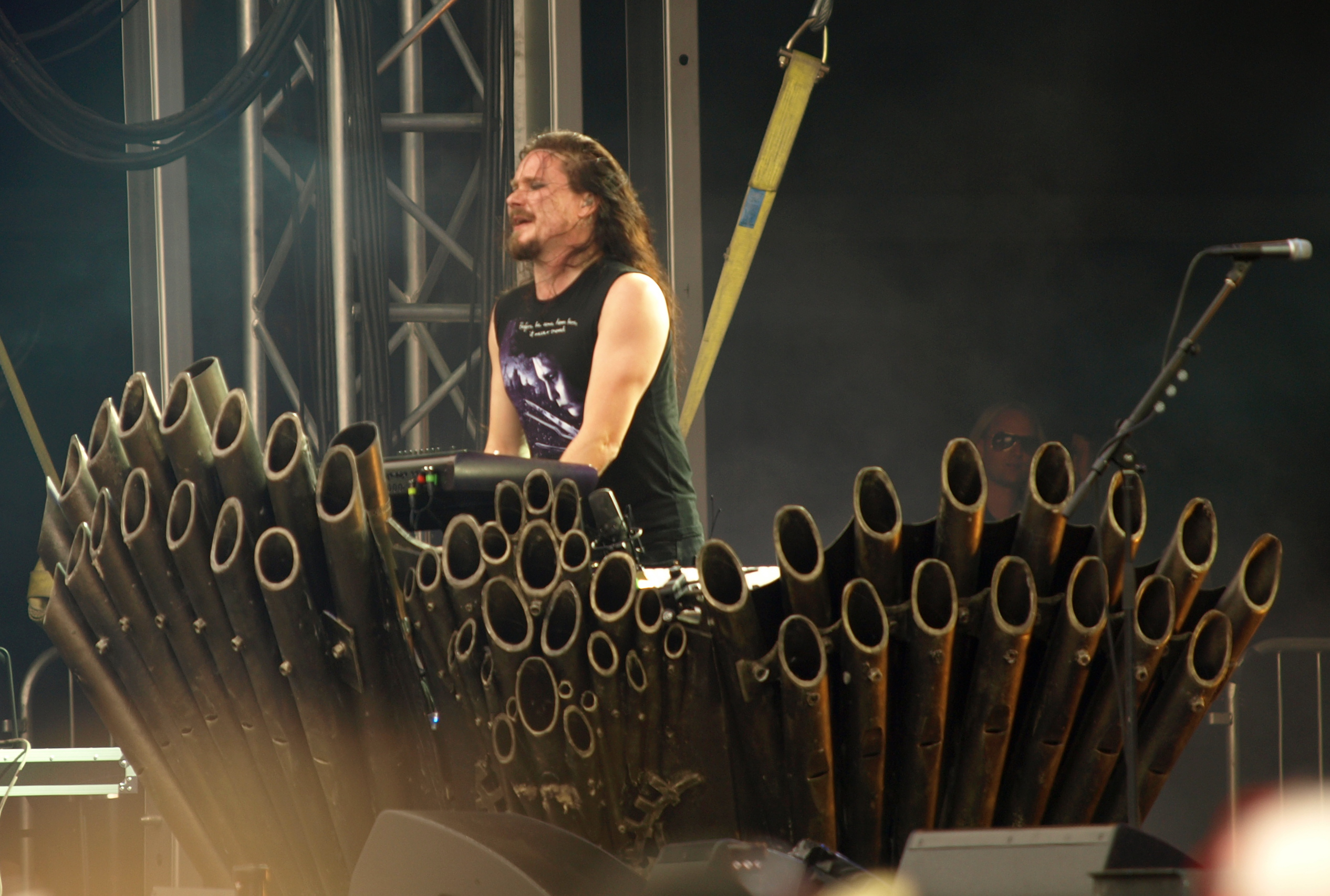 Finnish band Nightwish at Tuska Open Air 2013